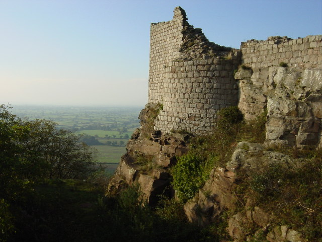 Beeston castle Ramparts